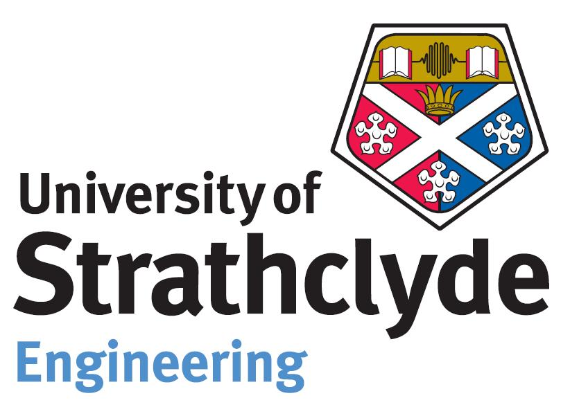 Strathclyde University Faculty of Engineering Logo